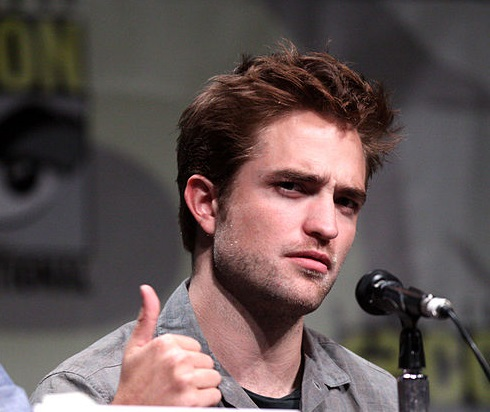 Robert Pattinson comic con cropped